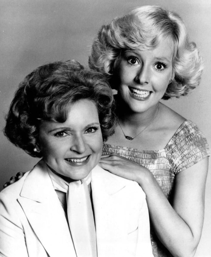 Photo of Betty White and Georgia Engel from the television program The Betty White Show.